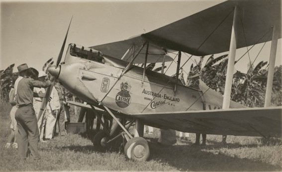 DH.60 Moth that C.W.A. Scott flew England Australia solo records in. Named Kathleen writen in chinese characters, after his wife at the time.